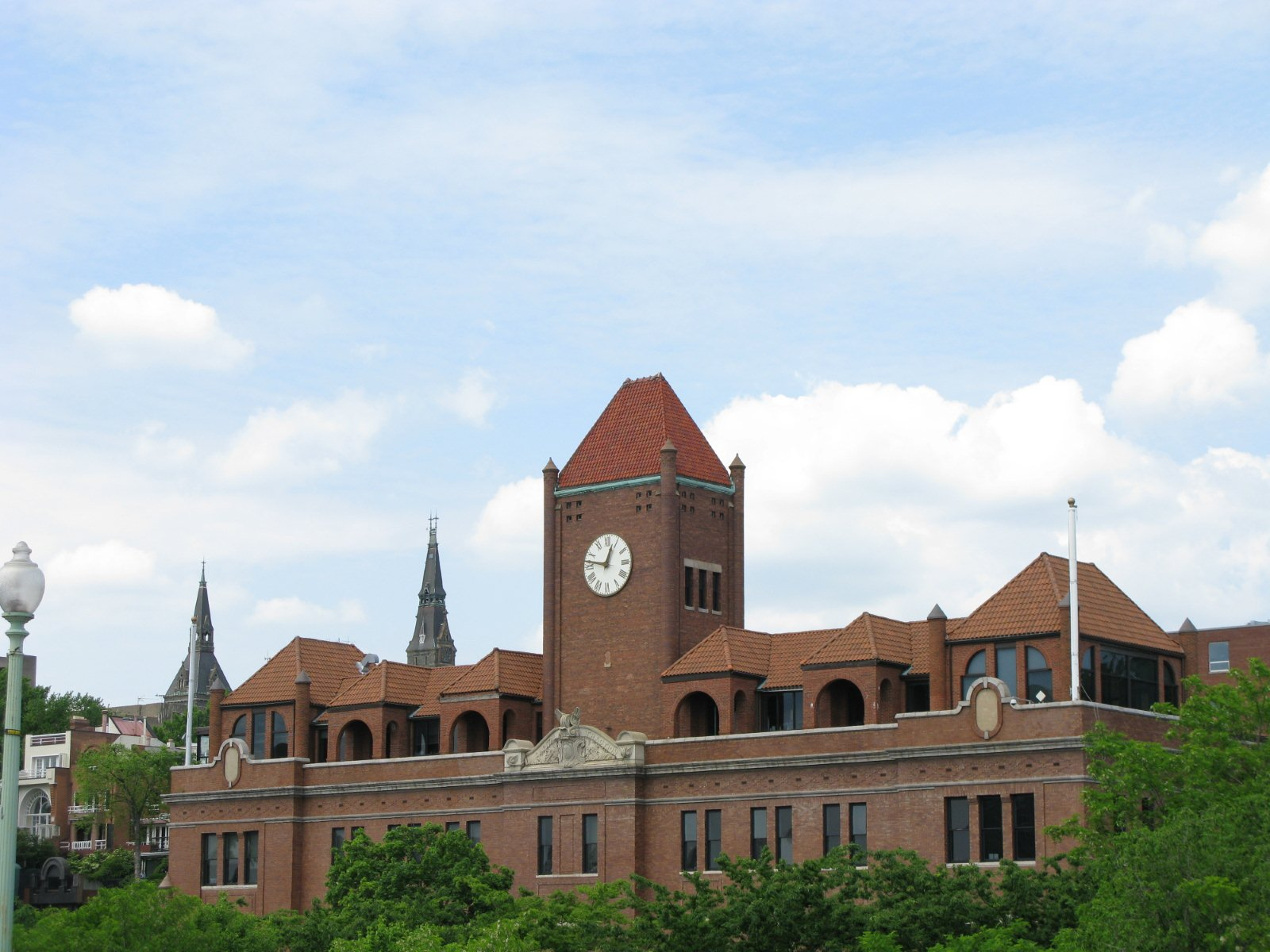 Now offices for Georgetown University, this was built in 1897 as a station and streetcar depot for the Capital Traction Company. It was originally known as Union Station, and served the " Washington and Great Falls Electric Railway and the Metropolitan Railroad as well as Capitol.